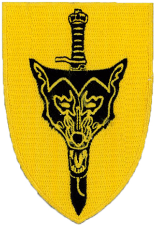 Logo of Assault Squadron 3 (ESK3), a unit in Norwegian Armoured Battalion. Picture is taken from a Army uniform of a Norwegian Army soldier. Photographed by me, using an iPhone 4S and later edited by me in MS Paint.